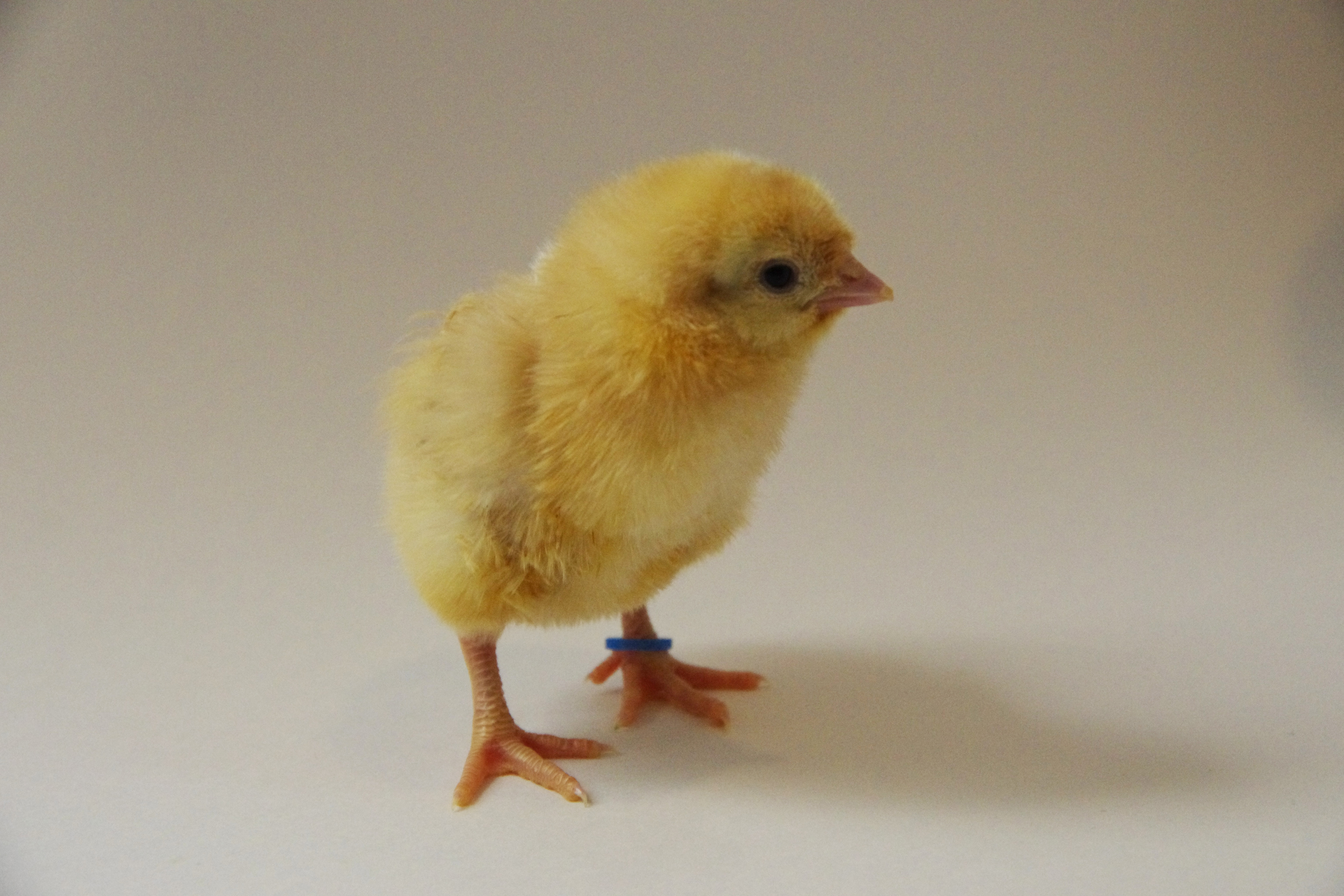 2-day old Euskal Oiloa Marraduna (Marraduna Basque Hen) chick